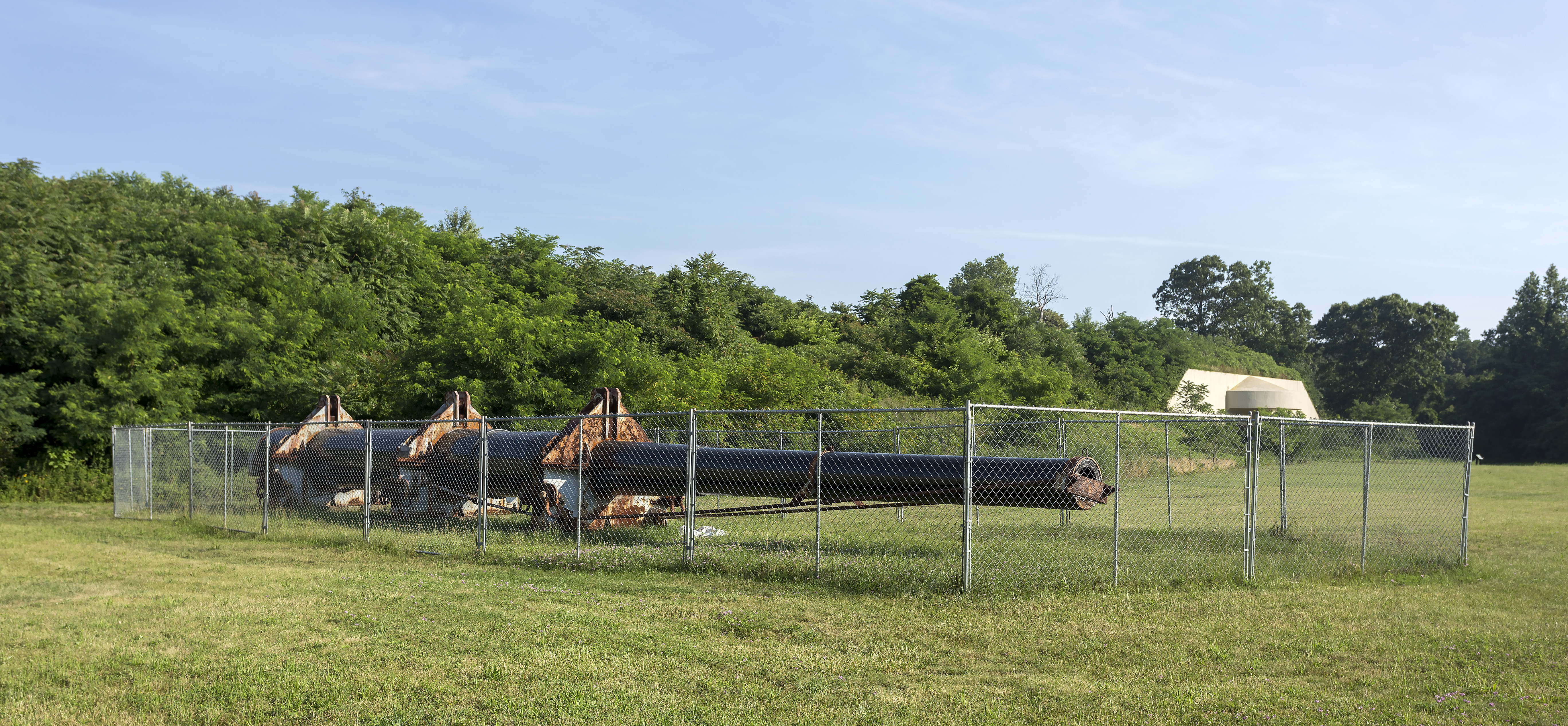 Battery Lewis, Navesink Military Reservation, Highlands, New Jersey, USA, in Hartshorne Woods Park, north mount and 16" gun from the USS New Jersey